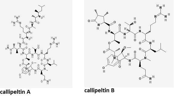 Callipeltin A&B